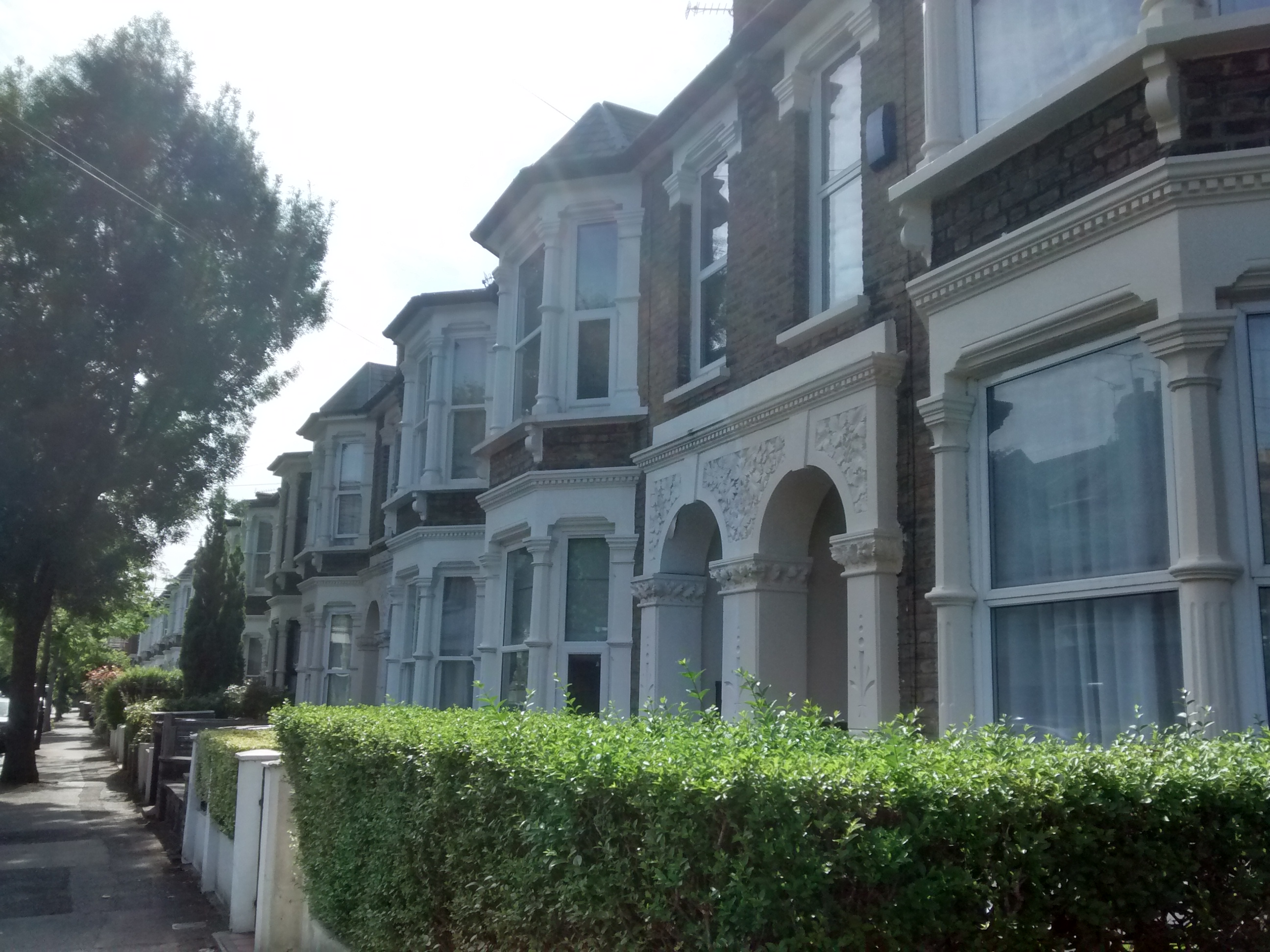 Street In Bushwood Area of Leytonstone